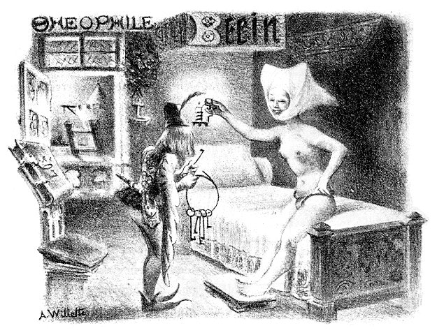 Sketch for a humorous "trade card" (combination advertisement and business card) for one Théophile Belin (whose first name is ornamentally spelled with a Greek letter Theta), drawn by French caricaturist Adolphe Willette ca. 1900. Probably the actual printed cards would have contained additional text, otherwise it would be a "visiting card" (there is no address or profession marked). This jocularly depicts a medieval young woman confined in a chastity belt (though as a matter of historical fact the chastity belt was much more of a Renaissance phenomenon than medieval), and also a highly-caricatured pseudo-medieval man with a ring of keys who has entered by climbing a ladder to the balcony outside her window. The woman is drawn as quite cheerful, despite wearing nothing but her voluminous hair-covering headdress and the chastity belt...